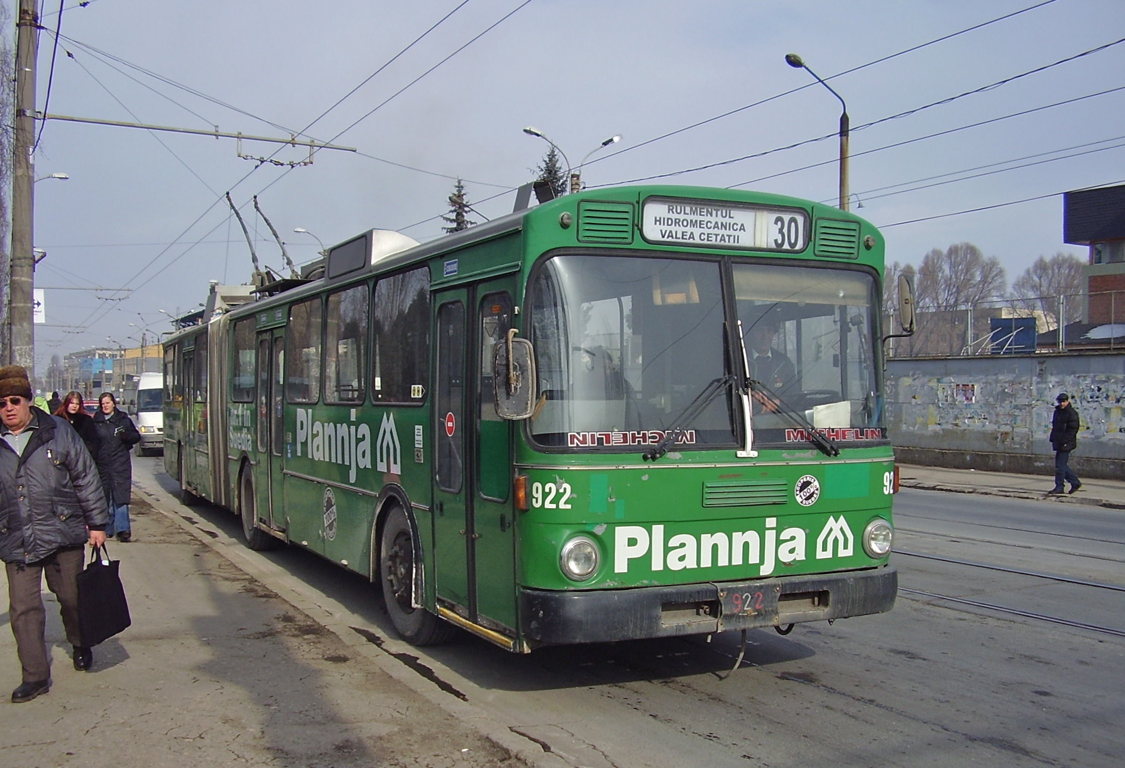 Braşov 922, a 1982/83 Mercedes-Benz O305GT trolleybus, southbound on Strada 13 Decembrie north of Strada Turnului, in 2006. No. 922 was acquired by Braşov in 2000 (probably through a dealer in secondhand buses) from the Basel trolleybus system (in Switzerland), where it had carried the same fleet number, and it is still wearing its Basel fleet livery in this photo (but with Romania advertising decals added). It was originally used by the Kaiserslautern (Germany) trolleybus system, where it had been No. 137, and was acquired by Basel in 1986.